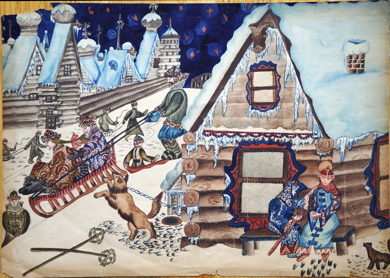 Child's drawing on tales of Pushkin. Watercolor. Art Studio of the Leningrad Palace of Pioneers and Schoolchildren A.A.Zhdanov. Bystrushkin B.D.